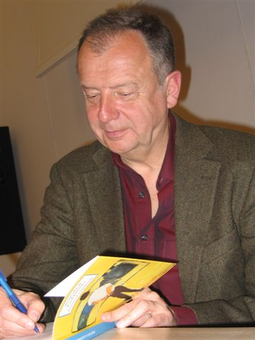 Wojciech Karpiński (b. 1943), Polish writer, essayist and historian